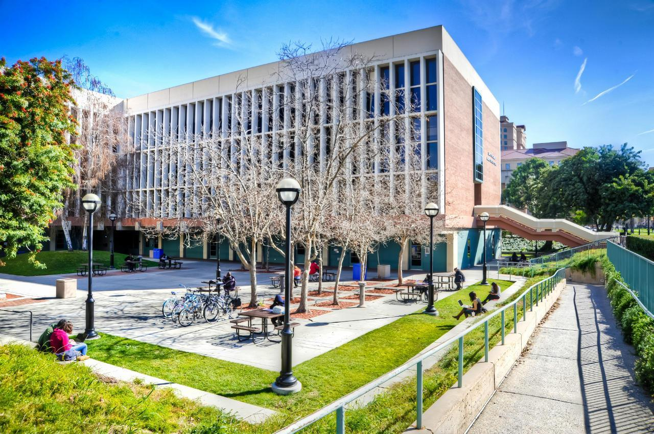 This is the classroom building where most business classes are held.